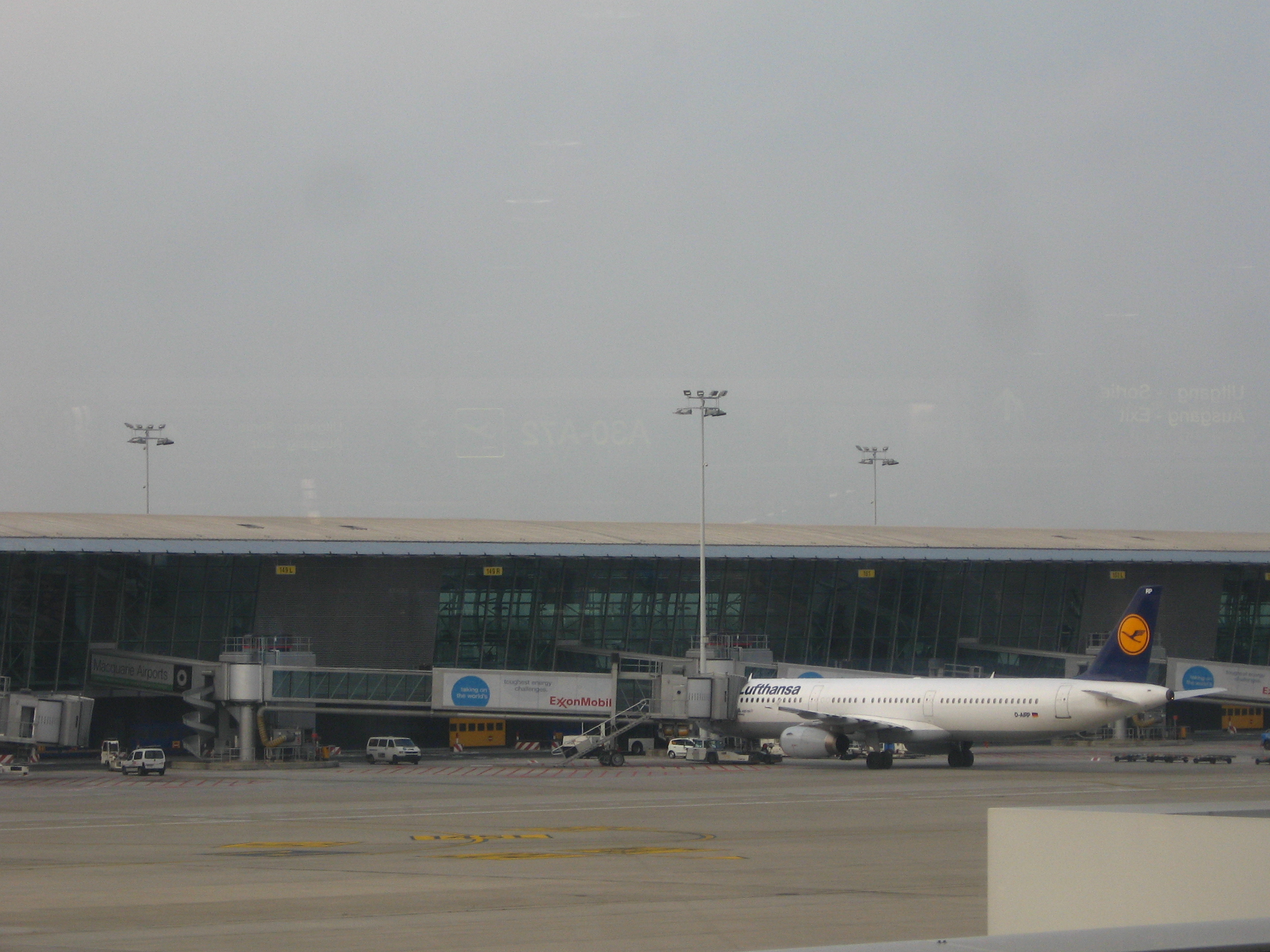 Lufthansa Airbus A321-131 (cn 564) D-AIRP “Lüneburg” at Piar A, Brussels Airport